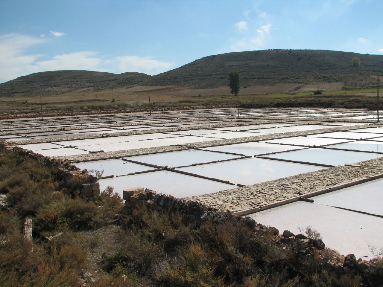 Salt mines of Imón, in Sigüenza, Guadalajara, Spain.